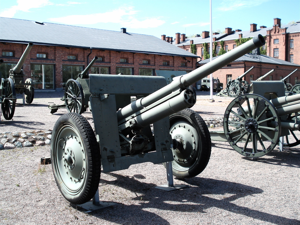 Russian 76.2 mm gun Model 1902/30 L40, displayed in Hämeenlinna Artillery Museum. Photo taken on June 18, 2006. Source: Photo by me, User:Balcer.